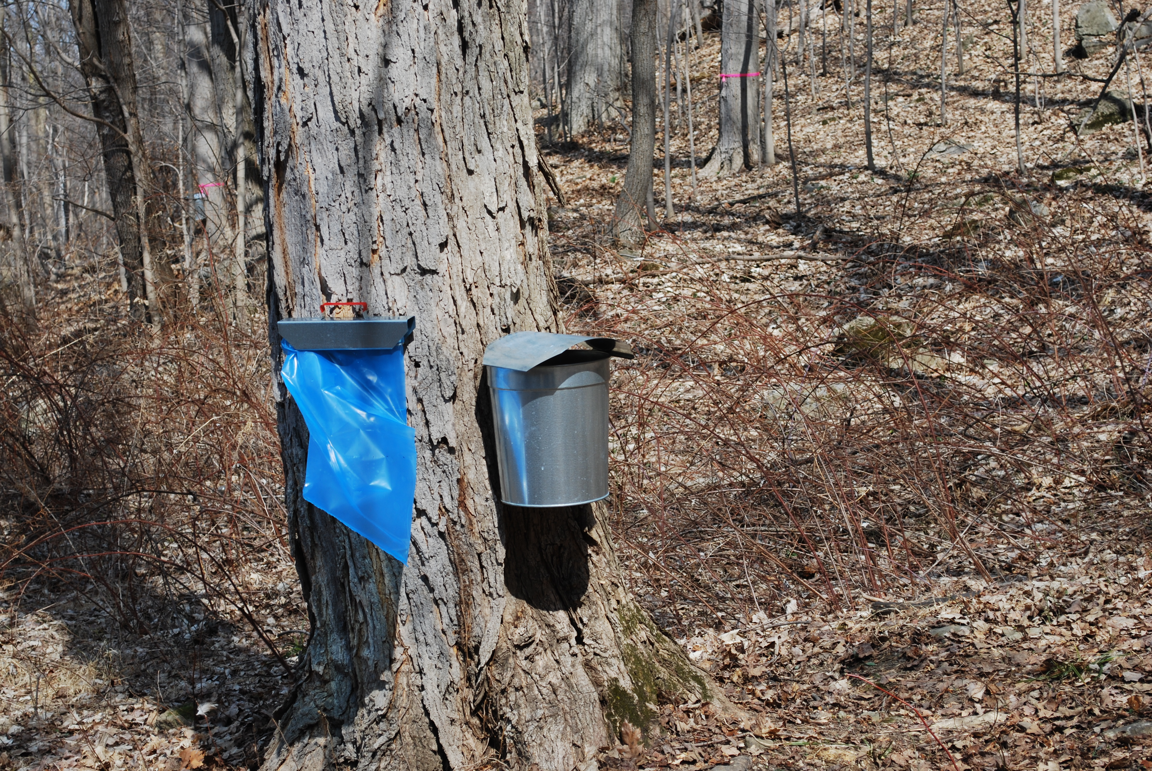 Maple sap collecting at Bowdoin Park in Dutchess County, New York.